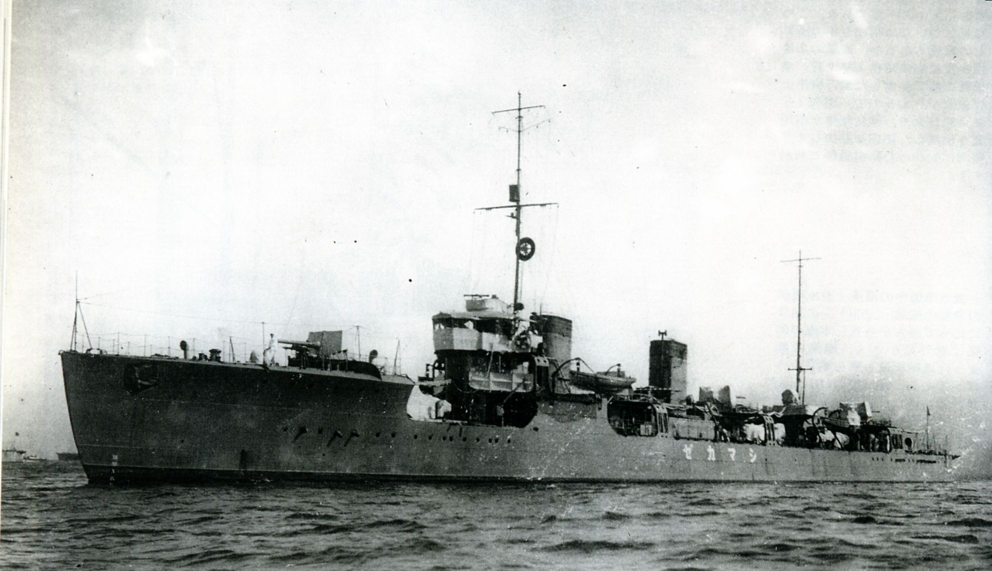 Imperial Japanese Navy destroyer Shimakaze.